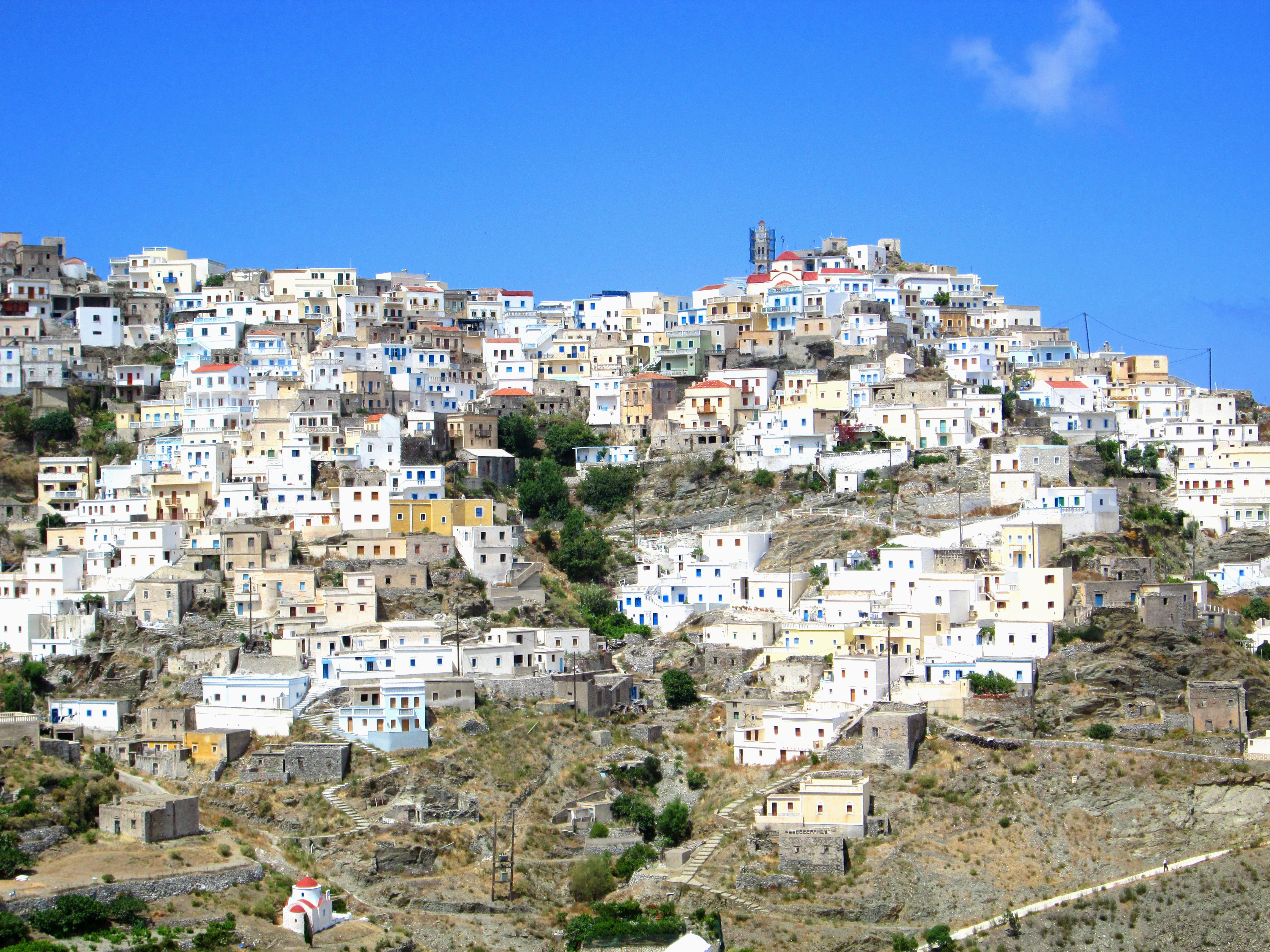 The village of Olympos on the Greek island of Karpathos